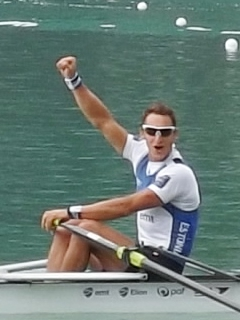 Allar Raja of the Estonian men's rowing team celebrating after reaching the bronze medal during the 2015 World Rowing Championships on lac d'Aiguebelette in Savoie, France.